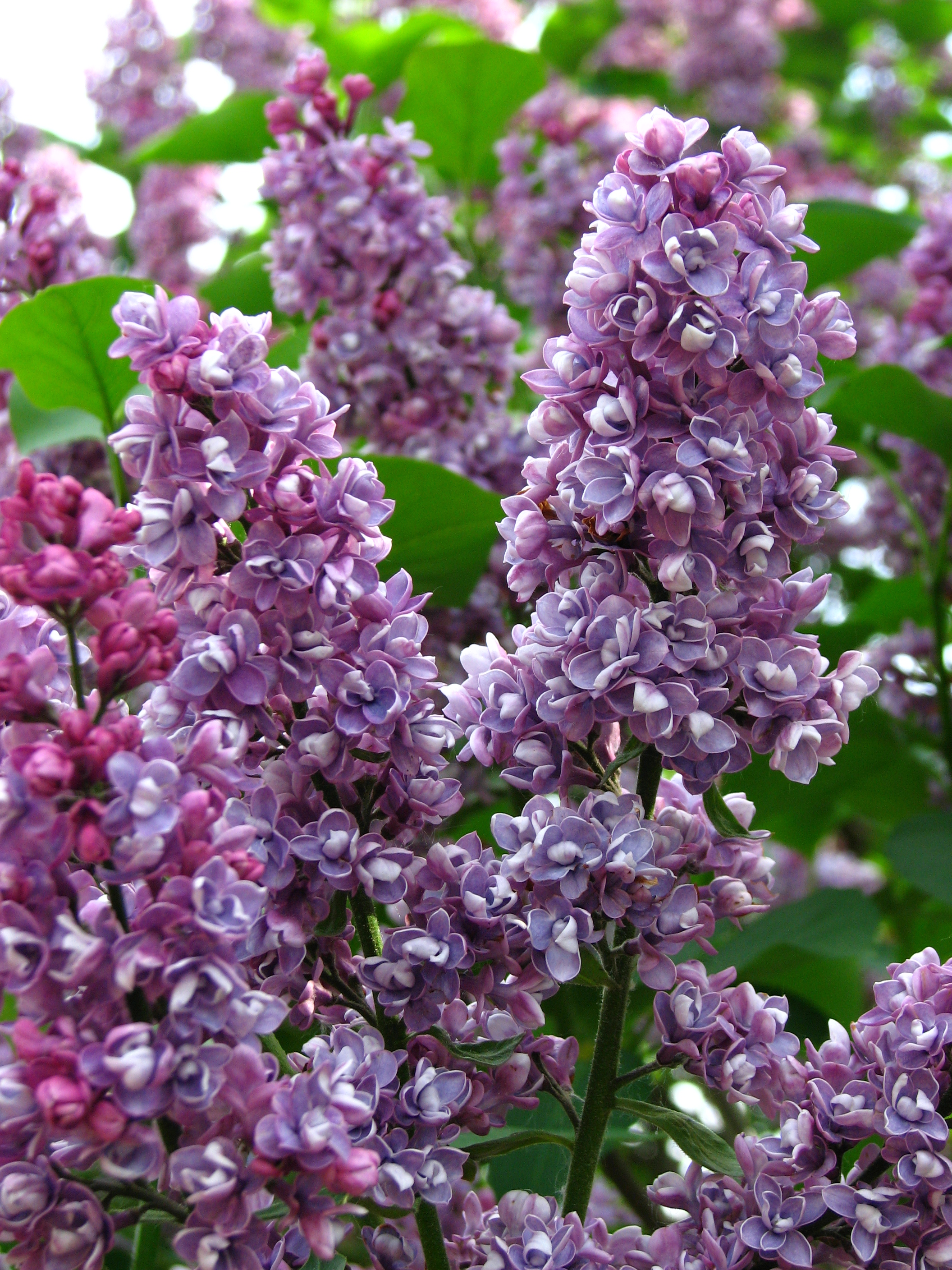 Syringa vulgaris 'Leonid Kolesnikov'. Originator: Kolesnikov. From the collection of the Botanical Garden of Moscow State University (main area on the Sparrow Hills).